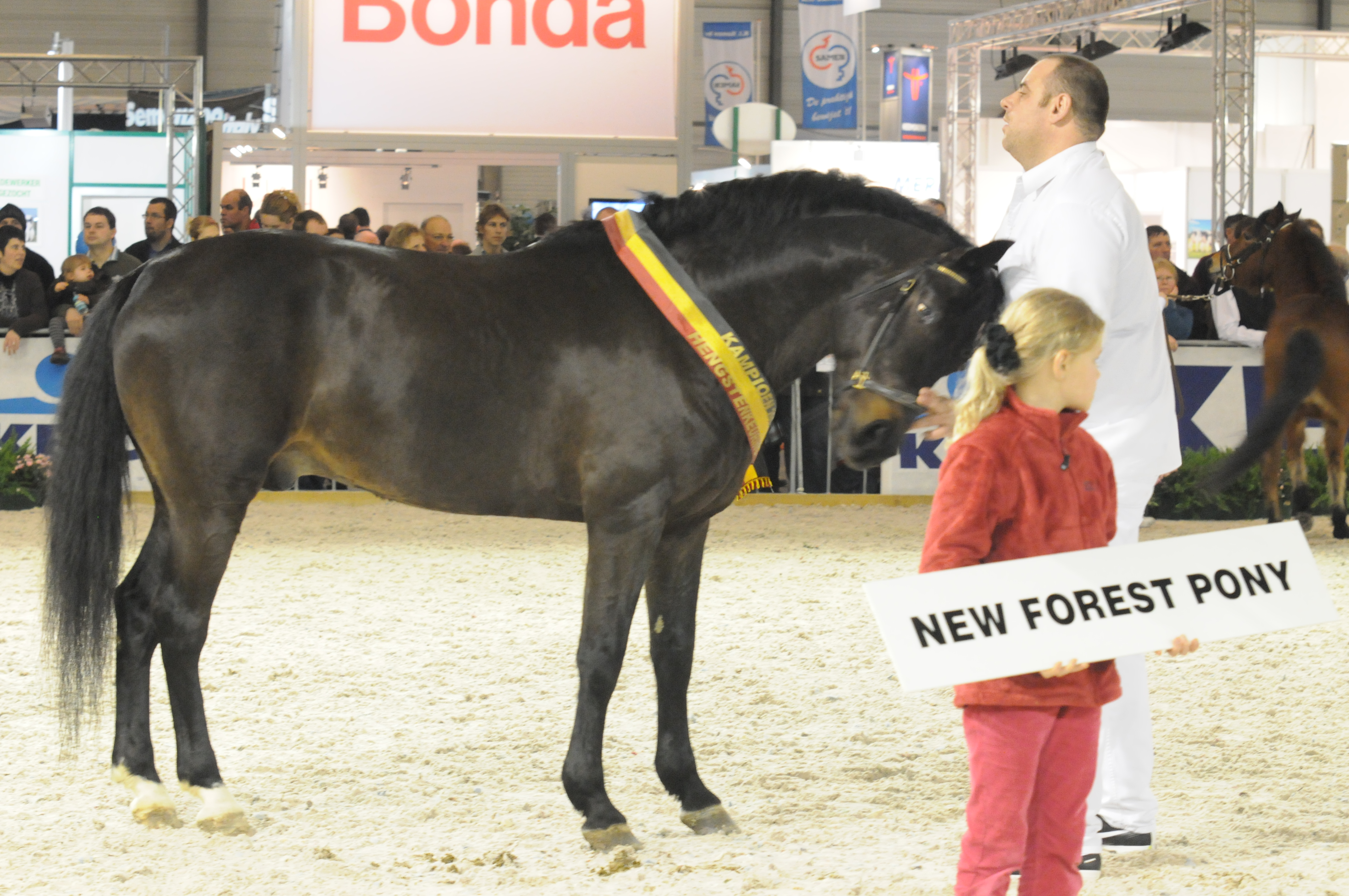 New Forest Pony at Agriflanders